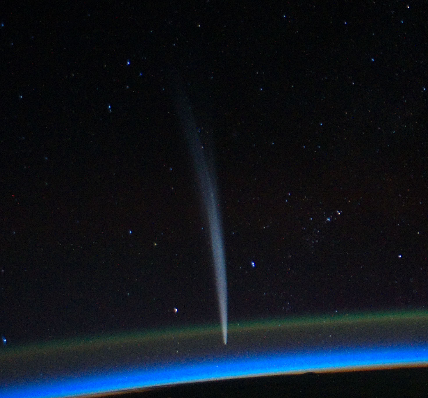 Comet Lovejoy is visible near Earth's horizon in this nighttime image photographed by NASA astronaut Dan Burbank, Expedition 30 commander, onboard the International Space Station on Dec. 21, 2011.